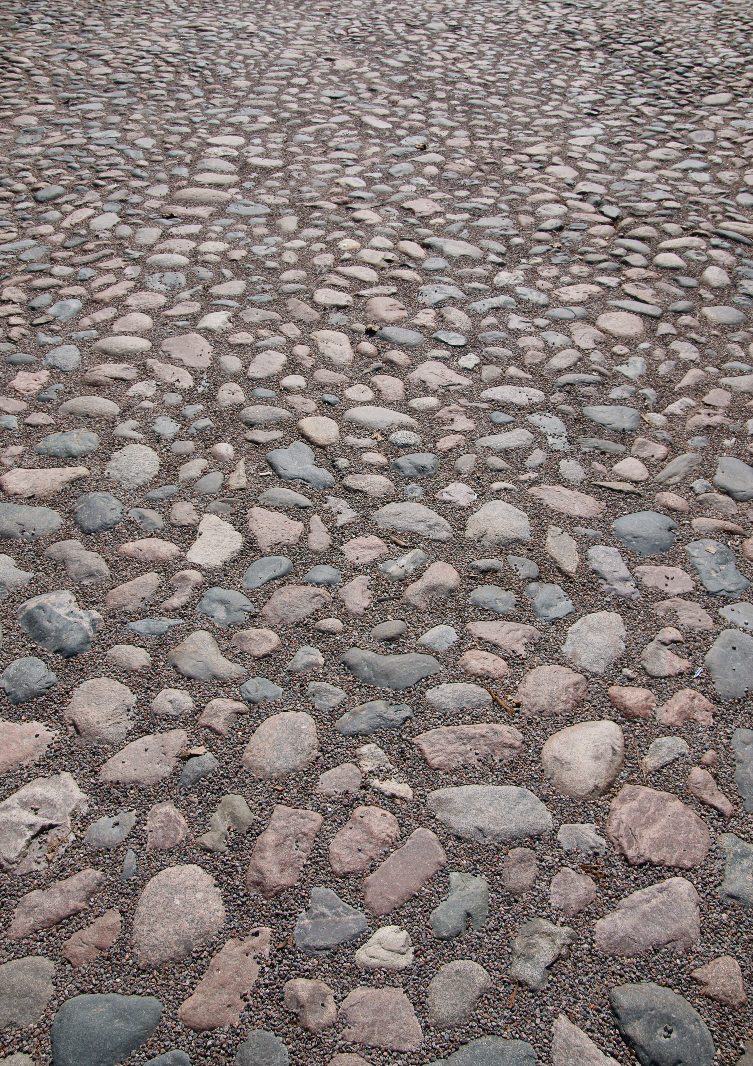 Cobblestone road in Porvoo, Finland.